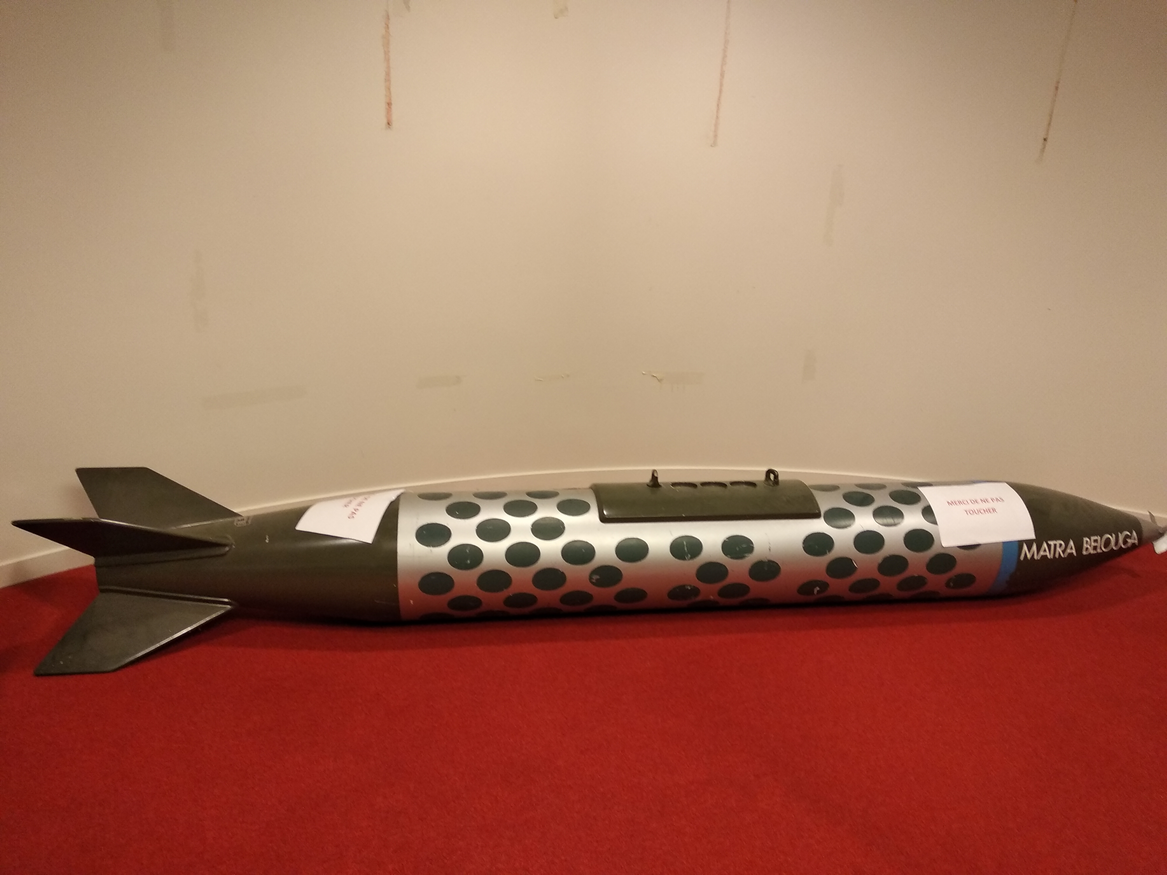 Taken in a french MoD meeting room